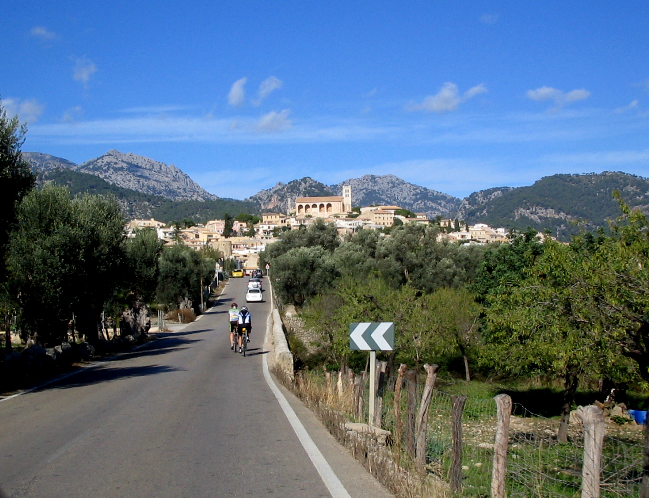 A spanish village called Selva in Mallorca.